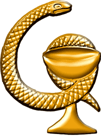 Medical Corps USSR branch insignia